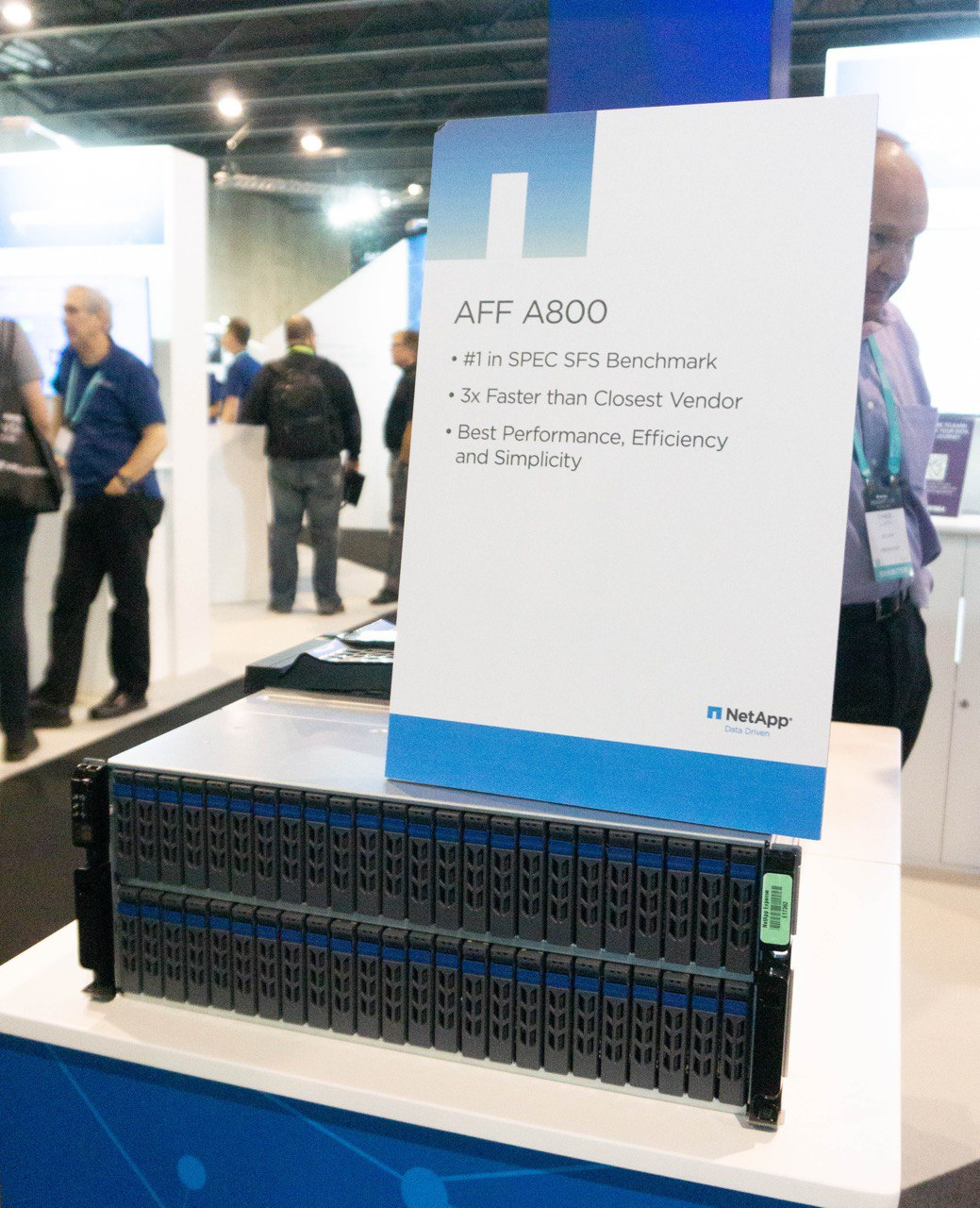 NetApp AFF A800